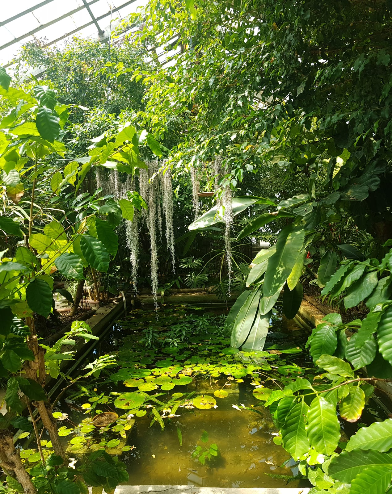 Istanbul University Alfred Heilbronn Botanical Garden.